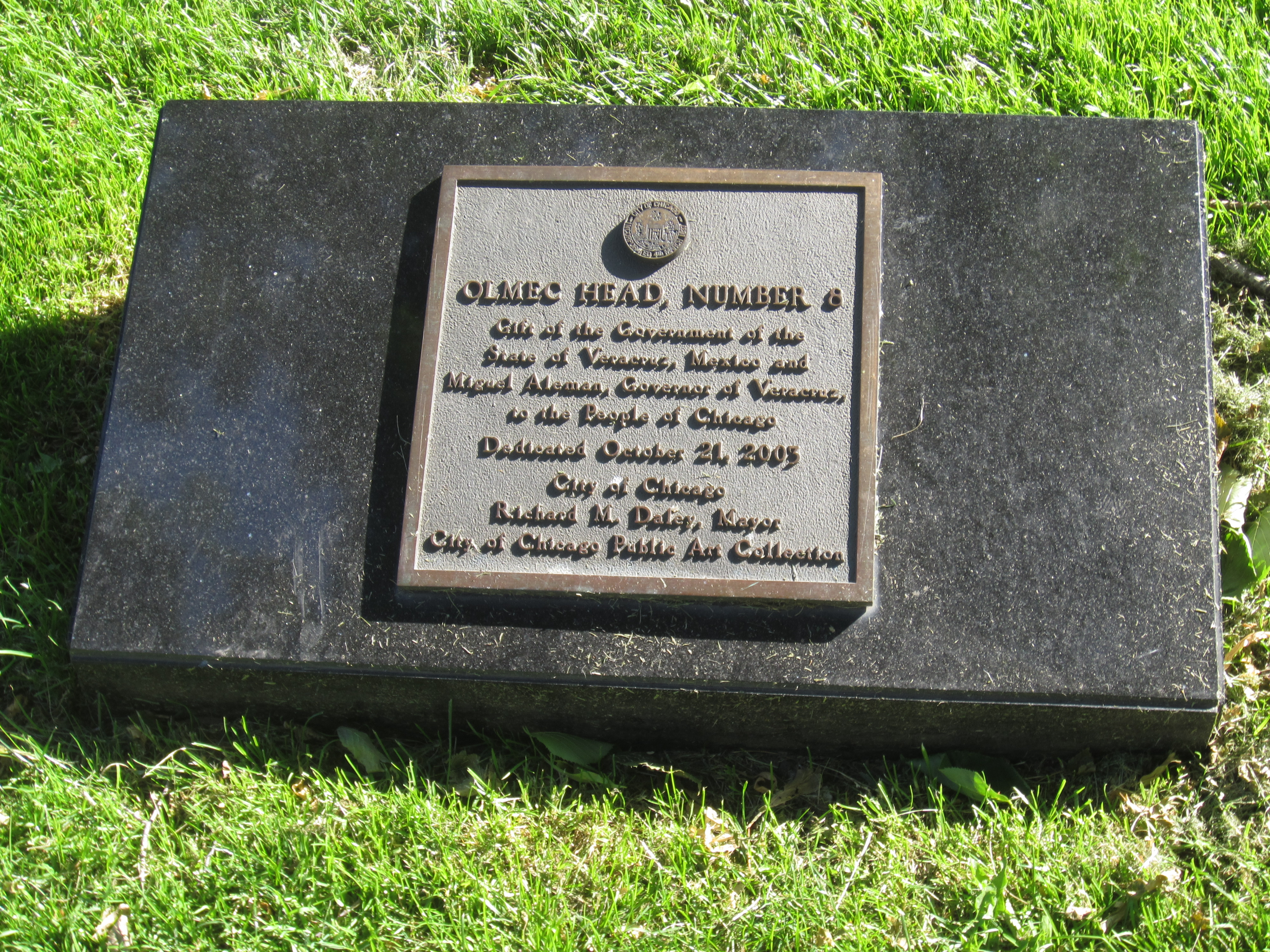 Chicago, Illinois, June 2015